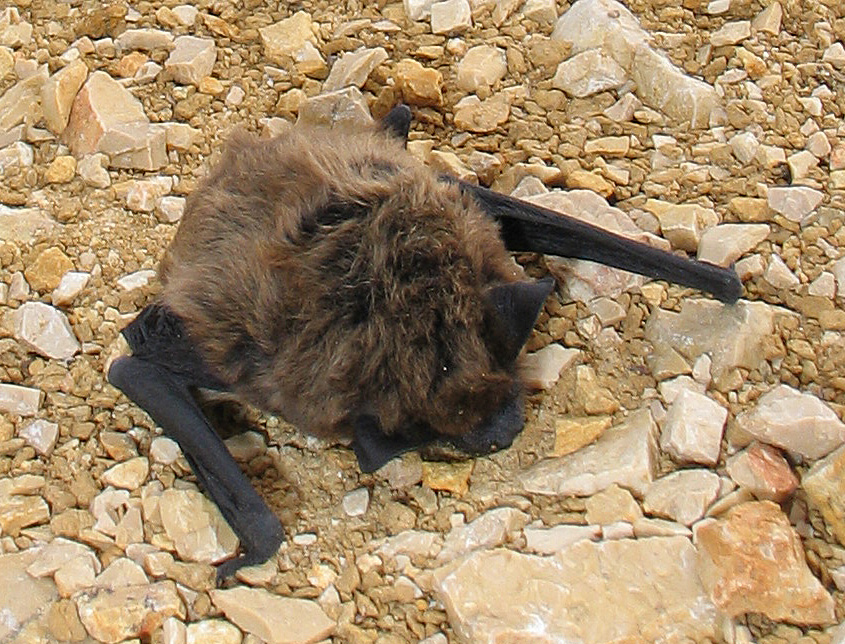 Savi's Pipistrelle, Hypsugo savii, bat killed by collision with wind turbine of the "Vjetroelektrana Trtar-Krtolin" wind farm near Šibenik, Croatia